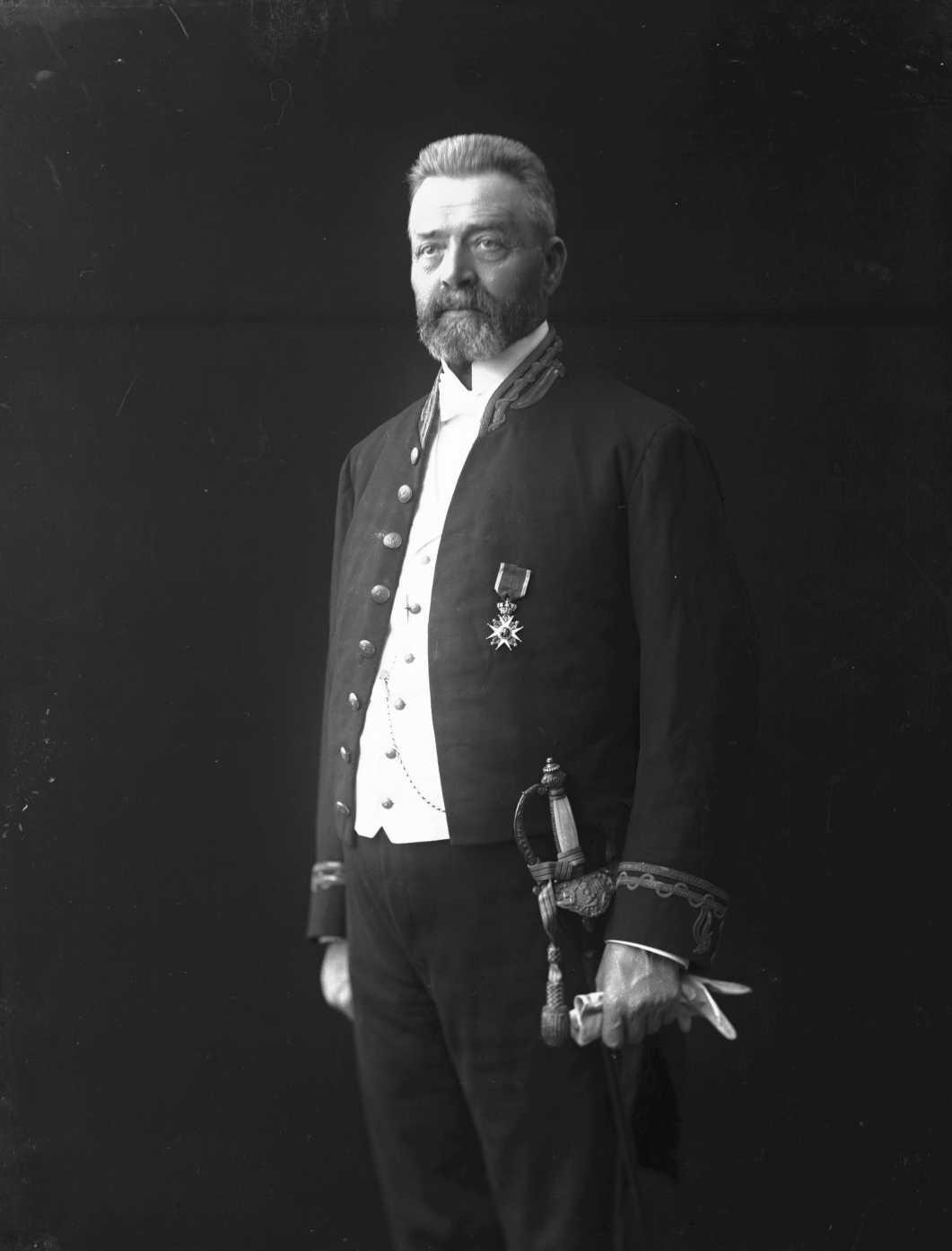 Ole Larsen Skattebøl (1844–1929), Norwegian supreme court judge and politician for the Conservative Party. Photo by Ludwik de Ravics Szacinski in the collection of Oslo Museum via DigitaltMuseum.